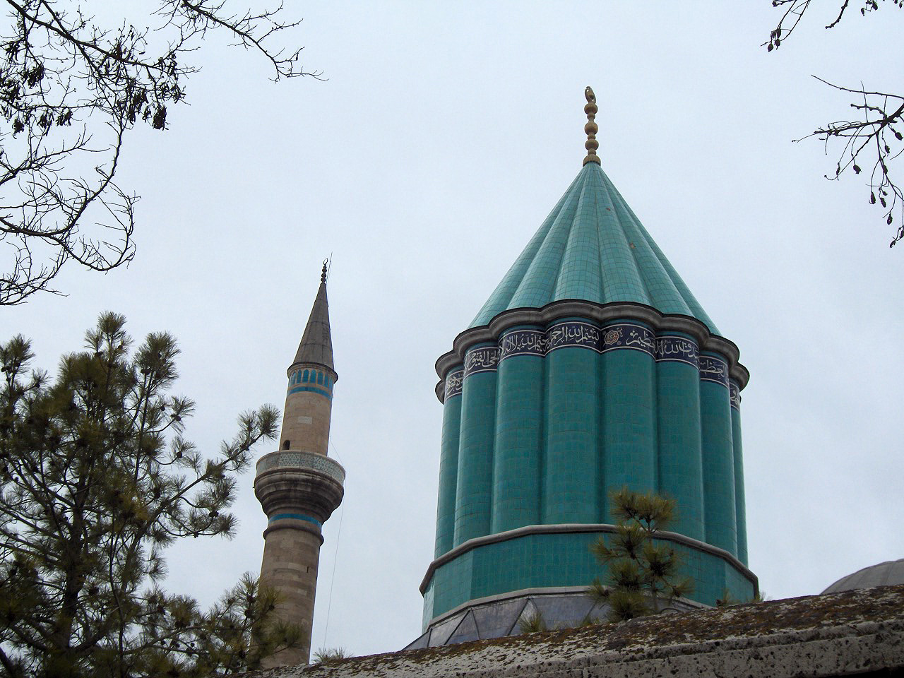 Close-up of the dome and minaret; Mevlâna museum; Konya, Turkey